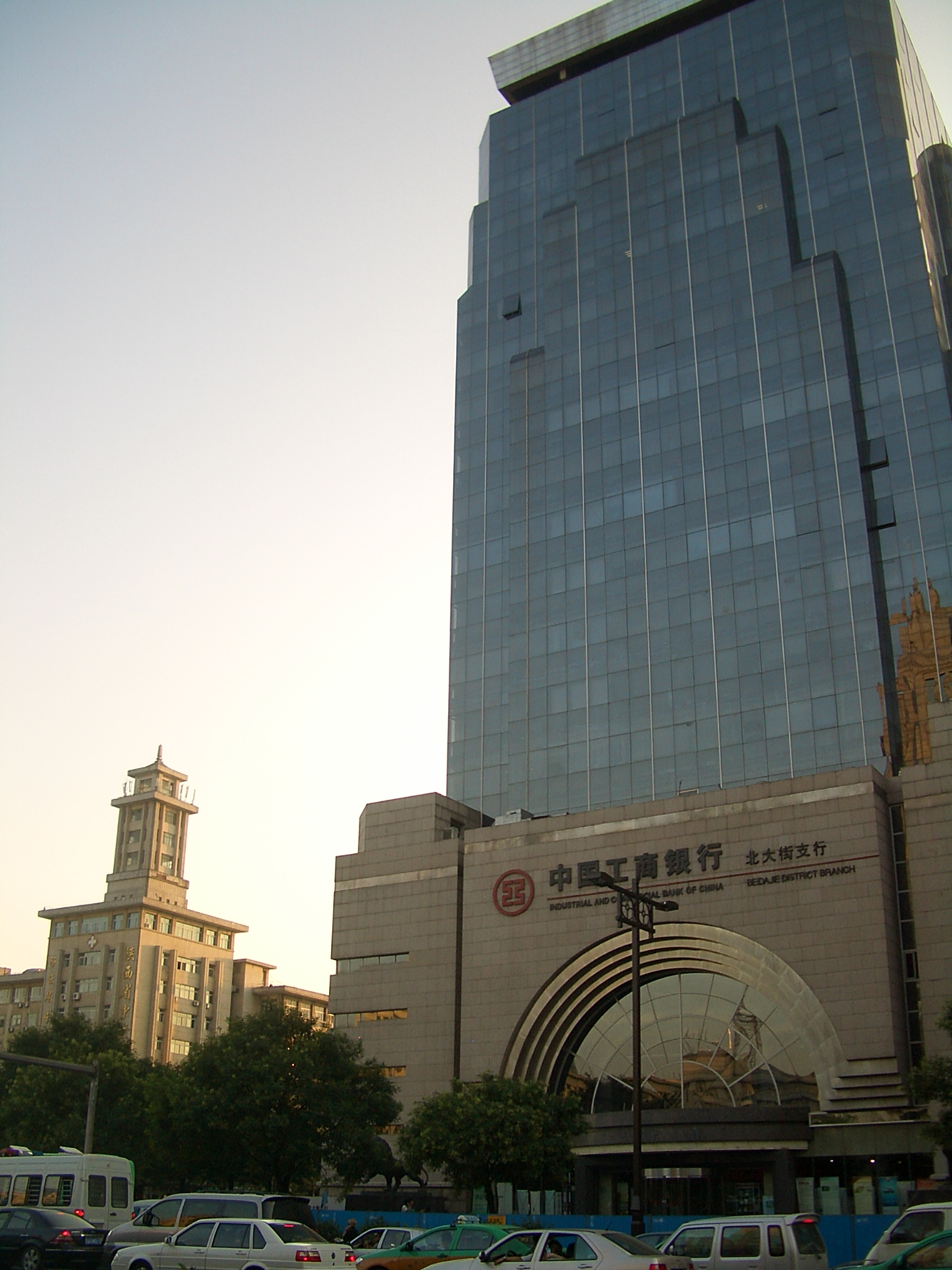 The tower of the Industrial and Commercial Bank of China in Xi'an